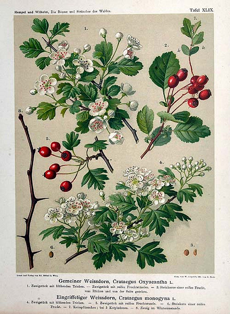 Smooth hawthorn, Crataegus laevigata